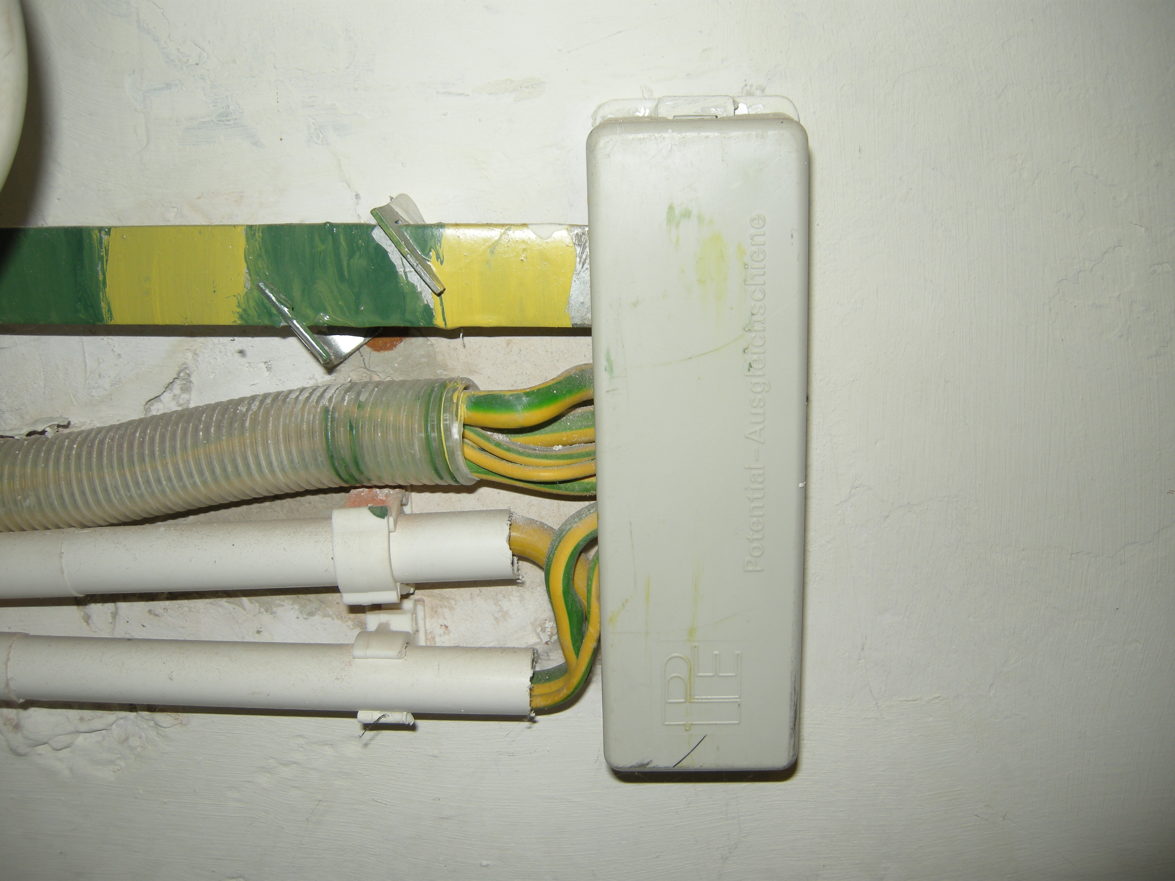 Main Equipotential Bonding